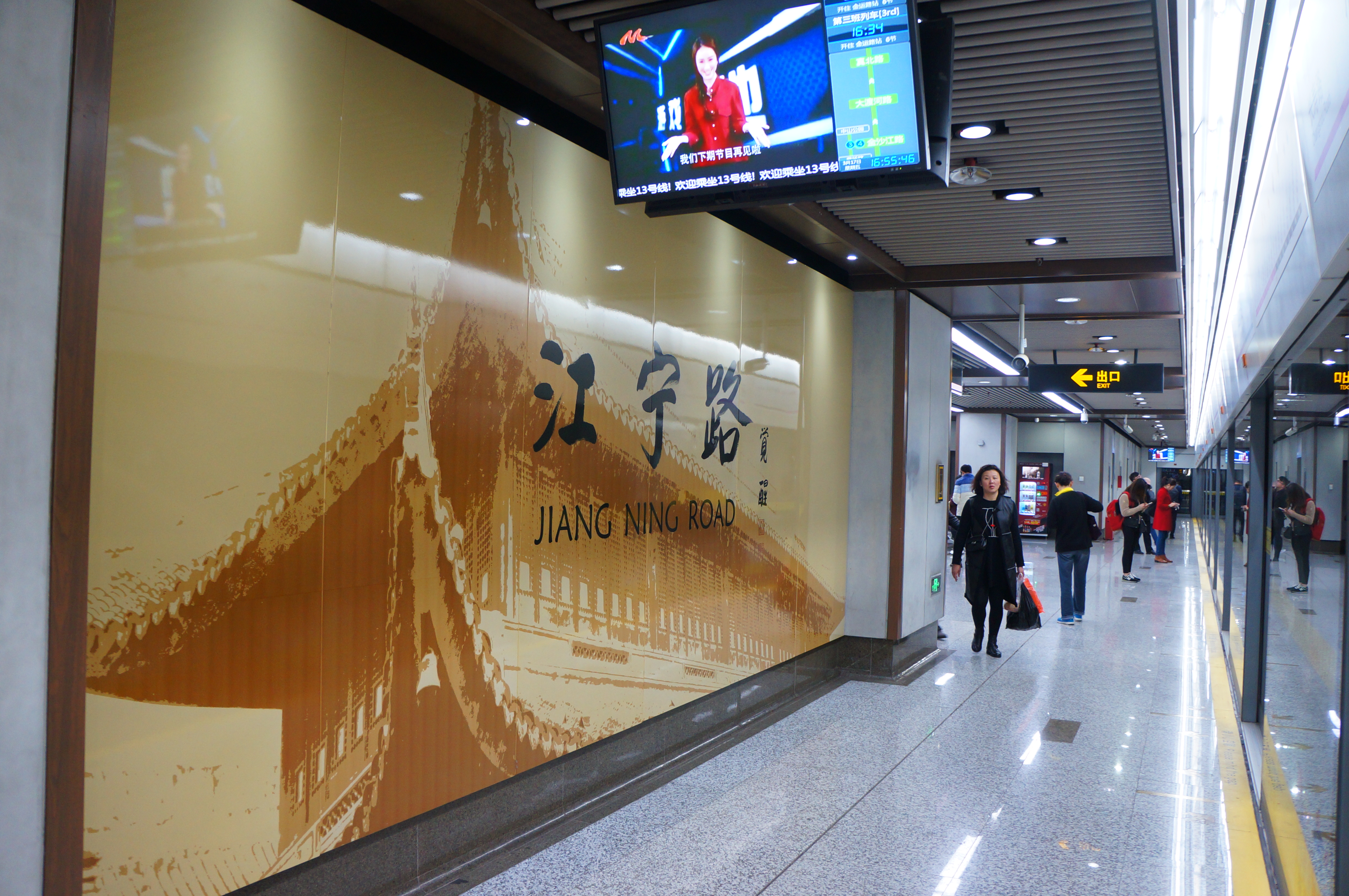 201703 Calligraphy board of Jiangning Road Station, the station calligraphy was written by the Abbot of Jade Buddha Temple